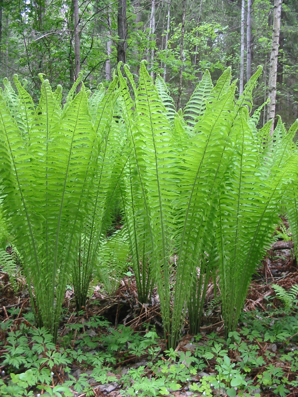 Matteuccia Struthiopteris in Ypäjä, Tavastia Proper, Finland